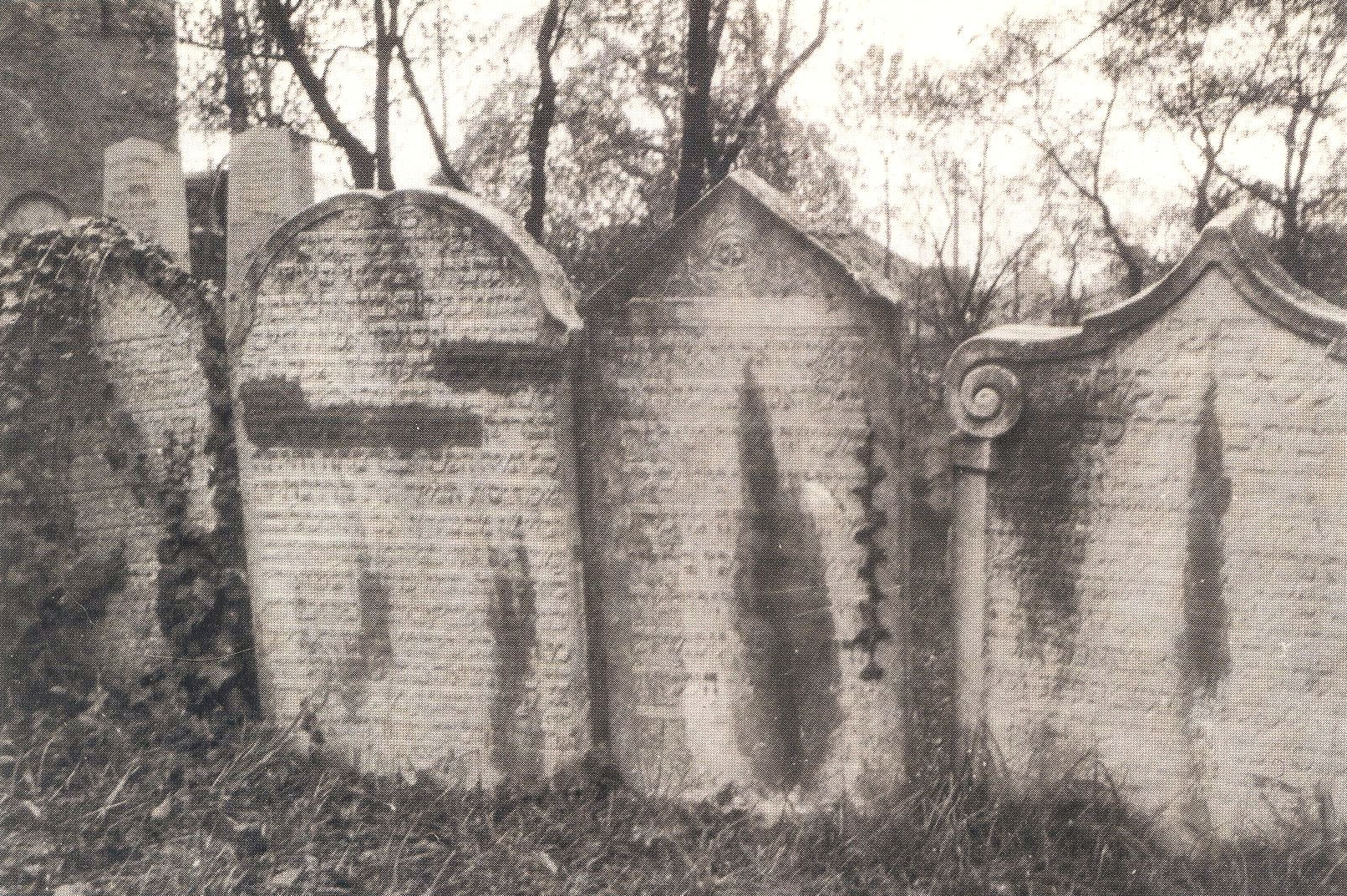 Old Jewish cemetery in Ústí nad Labem, Czech Republic (then Czechoslovakia) Česky: Náhrobní kameny na starém židovském hřbitově v Ústí nad Labem.